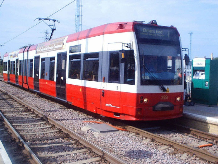 A Croydon Tramlink tram